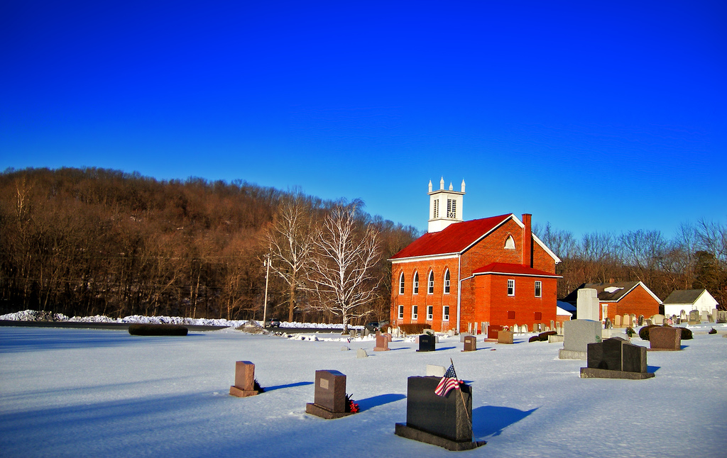 Roadside church and cemetery, Old Route 22, Berks County.